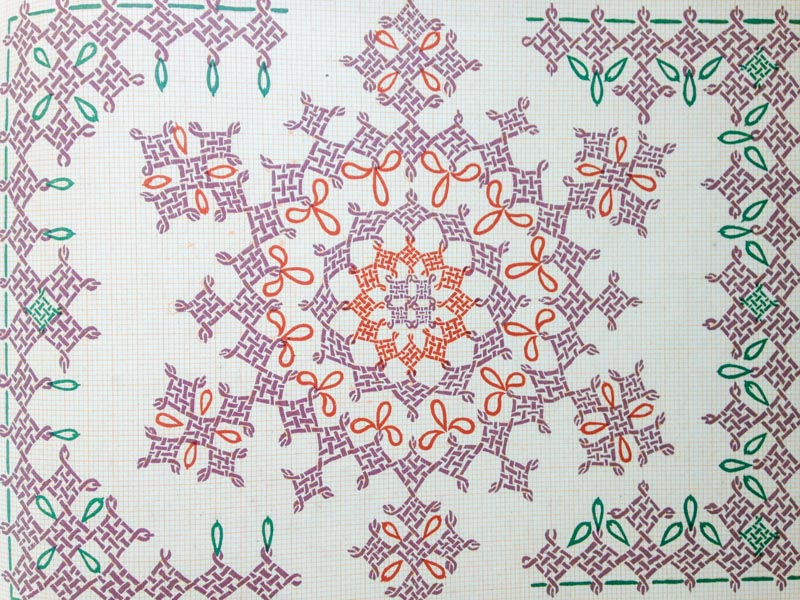 Werk van kunstenares Margaretha Verwey.